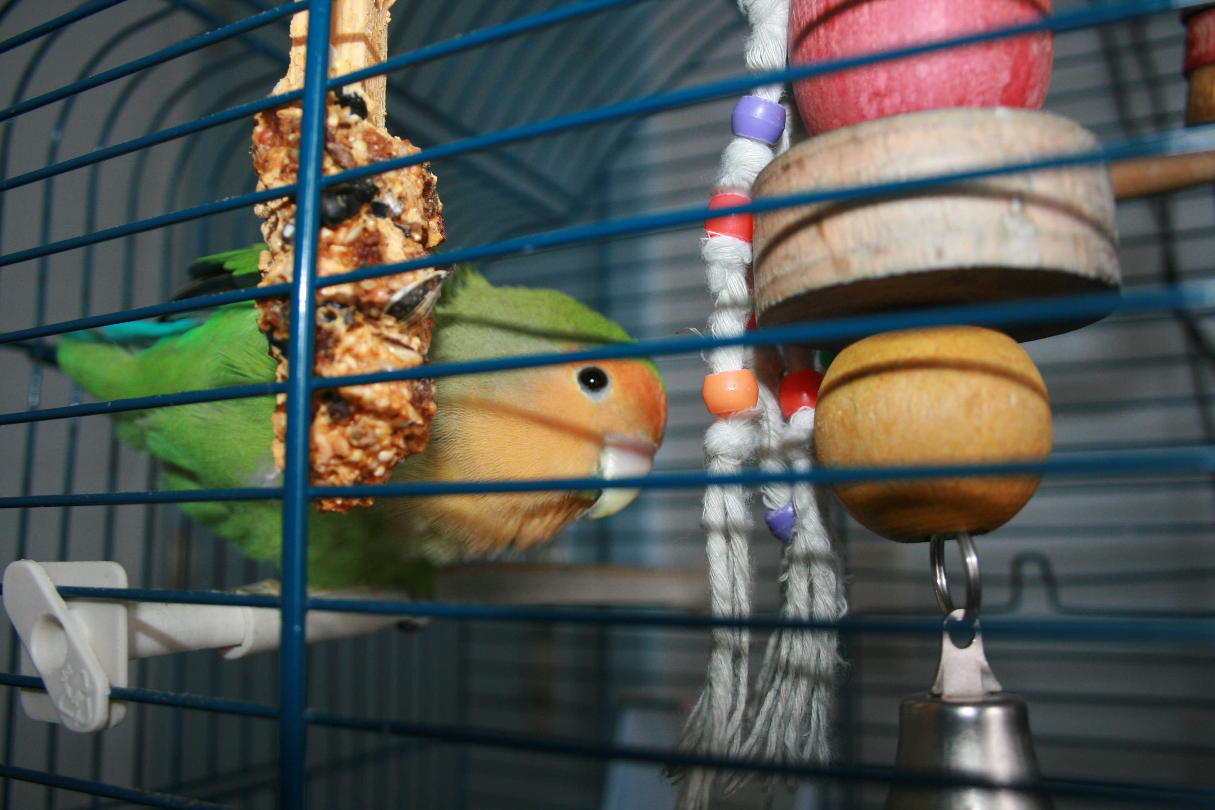 Rosy-faced Lovebirds can be tamed.